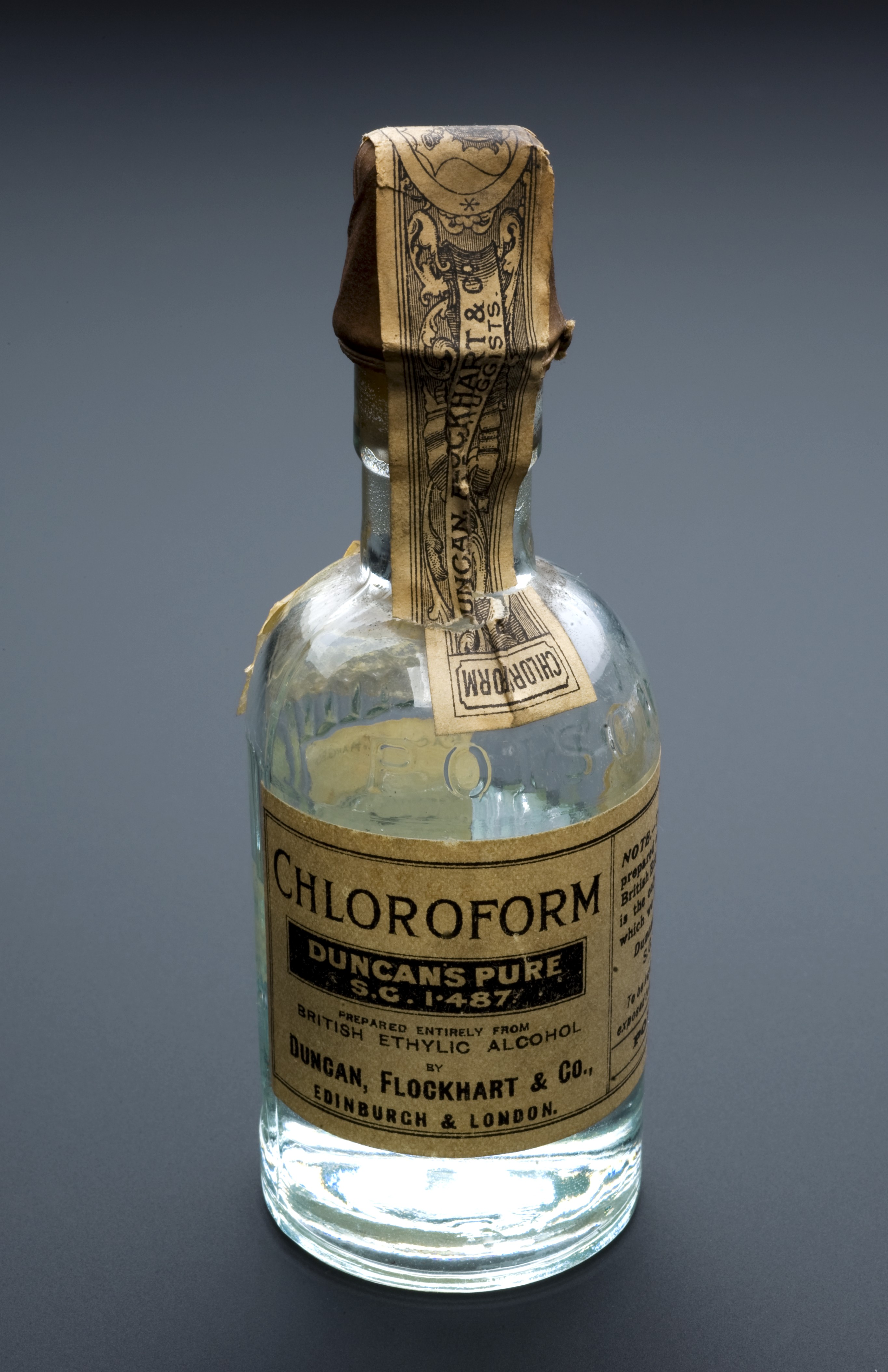 Duncan Flockhart & Co Ltd was commissioned by James Young Simpson (1811-1870) to manufacture chloroform from 1847 onwards. In 1847, Simpson became the first surgeon to use chloroform as an anaesthetic during childbirth. Duncan Flockhart & Co. Ltd became the first British manufacturers of chloroform and exported it throughout the British Empire. They also expanding into producing other anaesthetics and supplied the British and Allied forces during the First and Second World Wars. maker: Duncan Flockhart and Company Limited Place made: United Kingdom Wellcome Images Keywords: anaesthetic; Chloroform; bottle